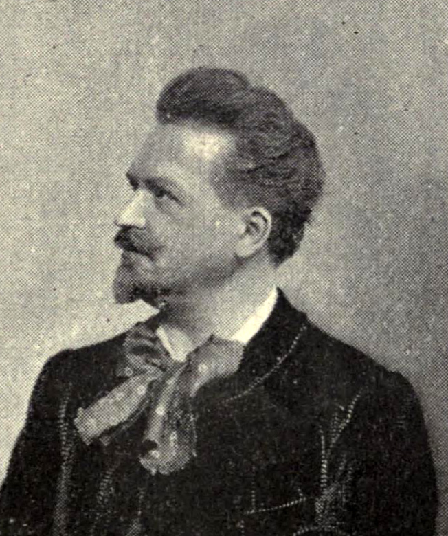 Photographic portrait of French tenor Pierre-Émile Engel